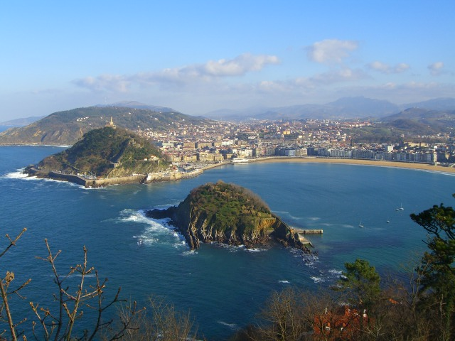 View of Donostia - San Sebastian from Igeldo.